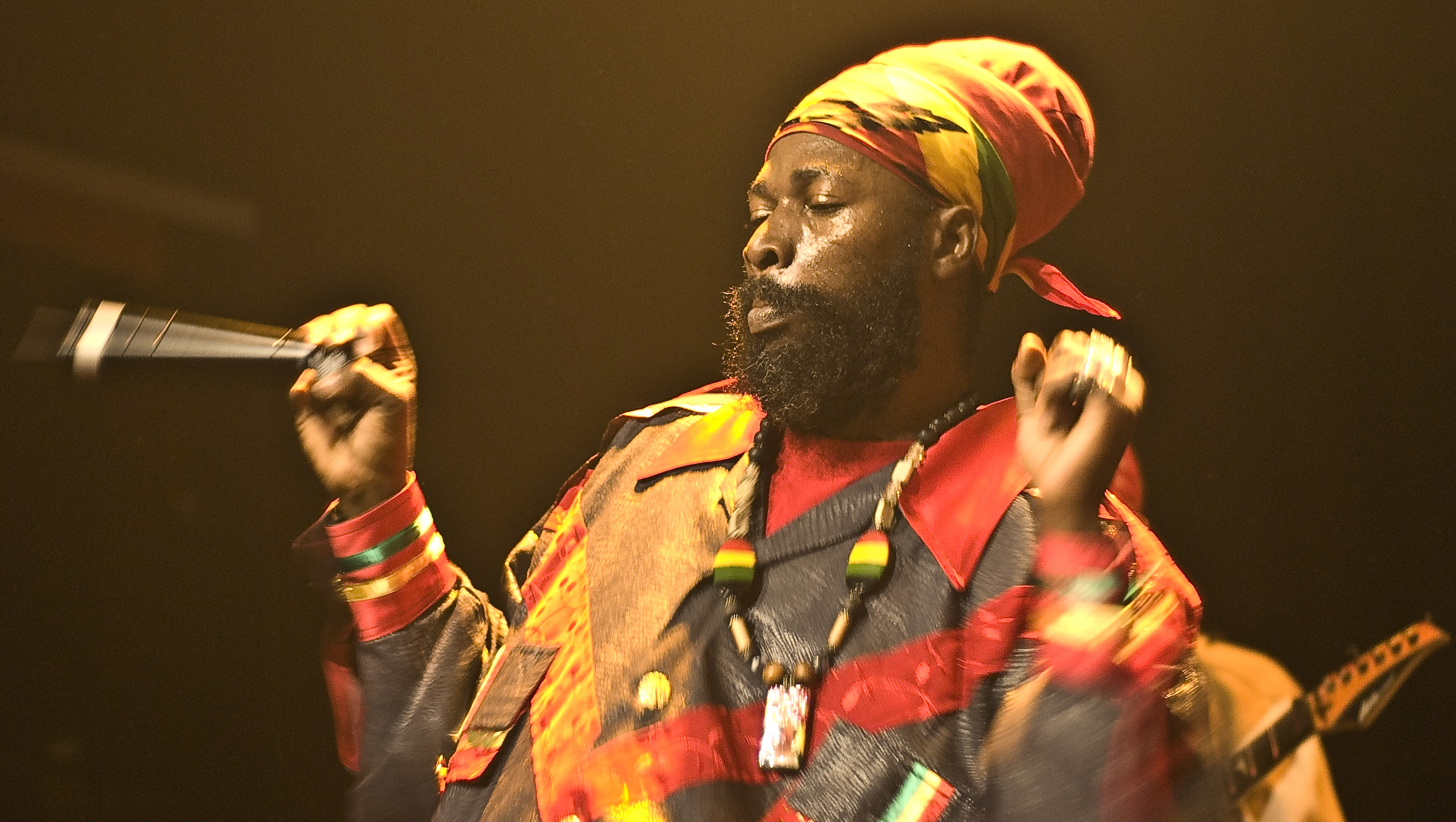 Capleton